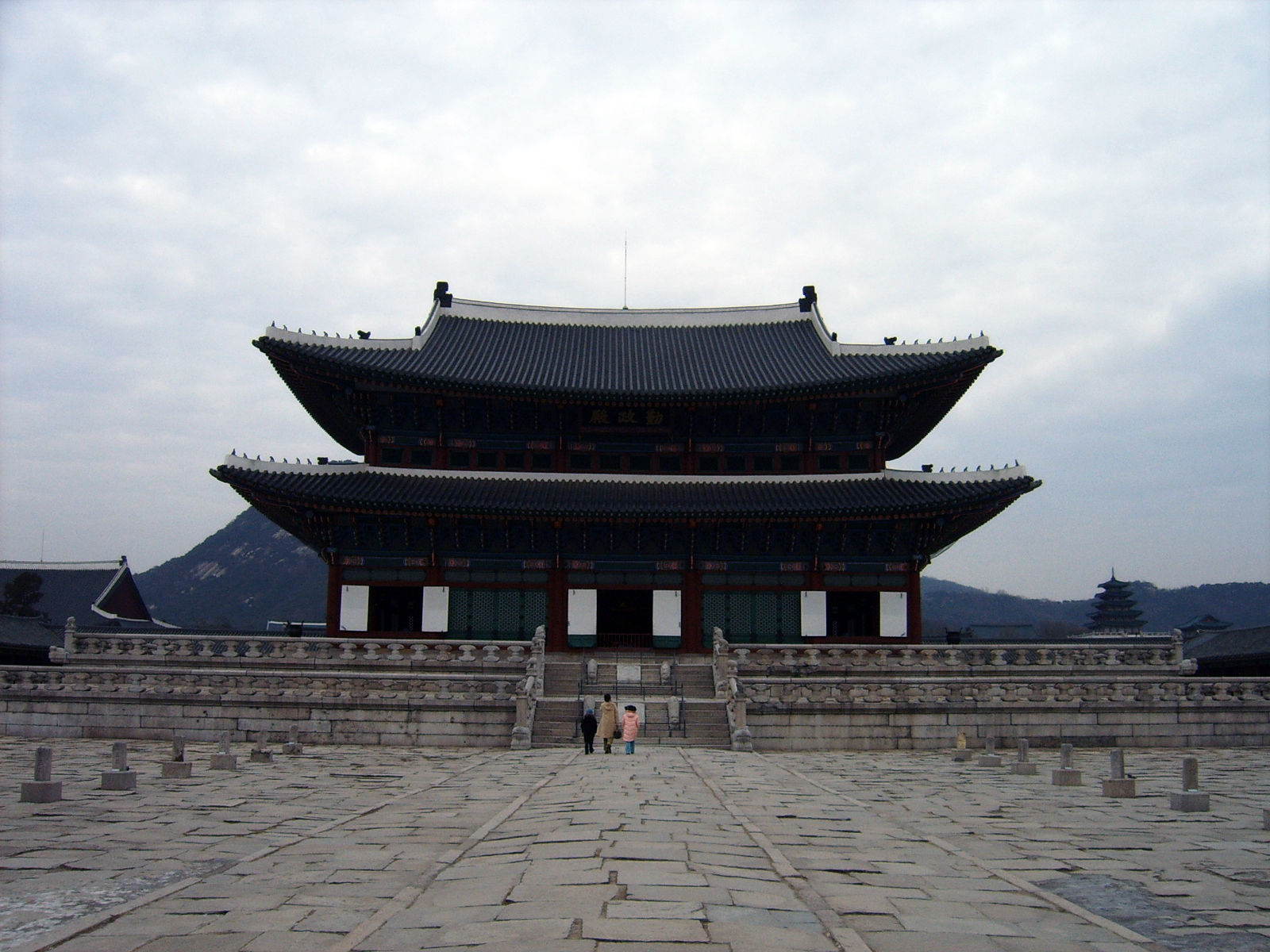 The Korean Royal Palace